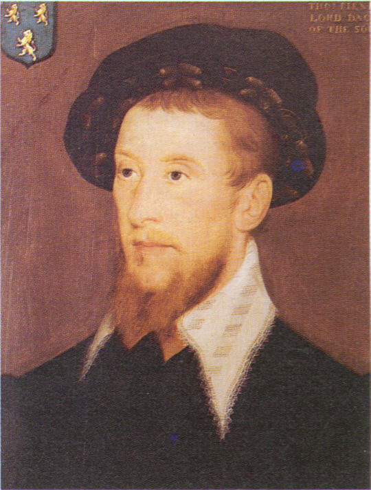 Thomas Fiennes, Baron Dacre. Arms of Fiennes: Azure, three lions rampant or (Debrett's Peerage, 1968, p.995, Baron Saye and Sele) Possibly the source for the painting of Dacre that hangs in the background of Hans Eworth's portrait of his widow, Mary Neville, Baroness Dacre.